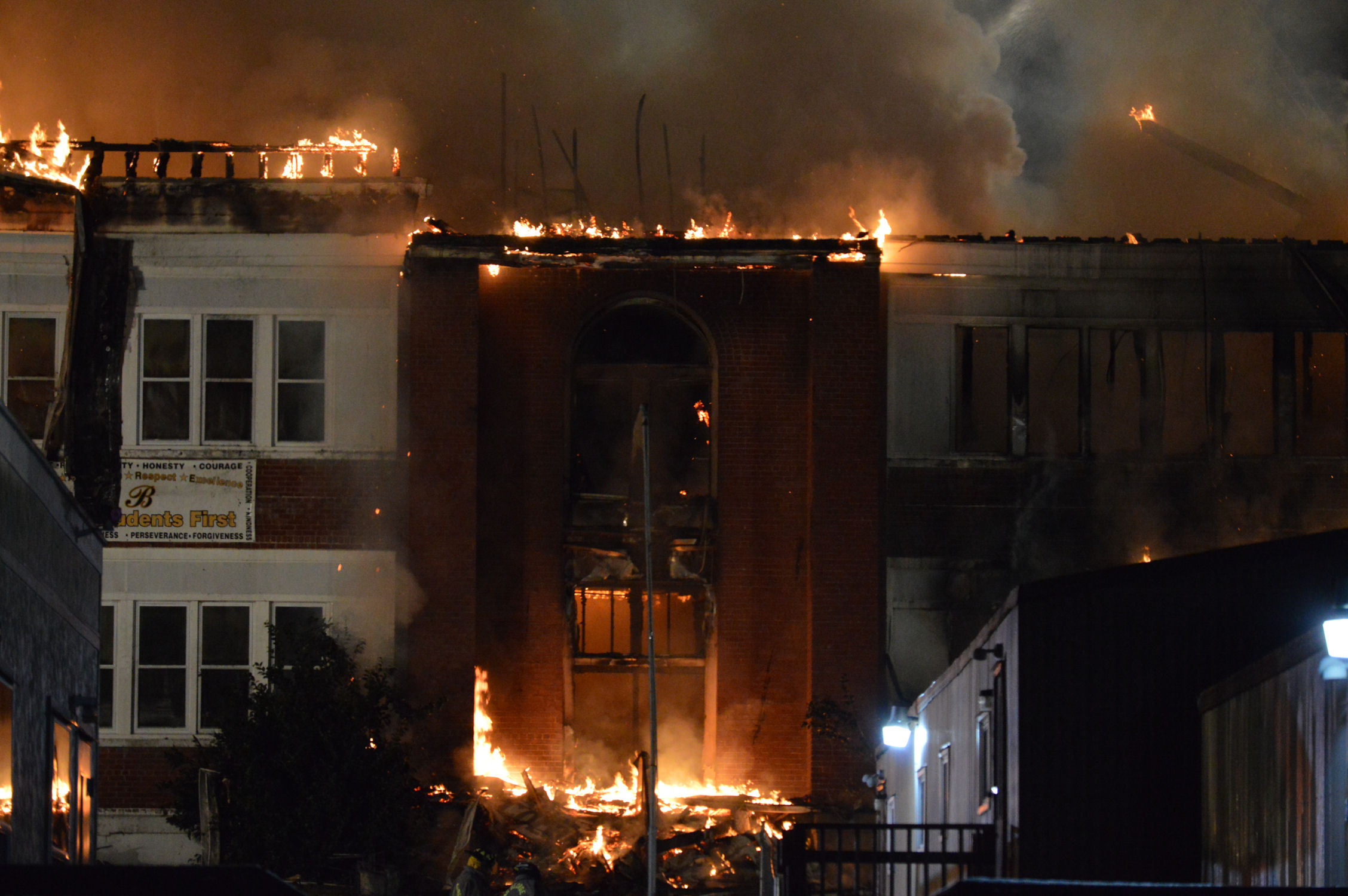 Fire at old Colonial Beach High School